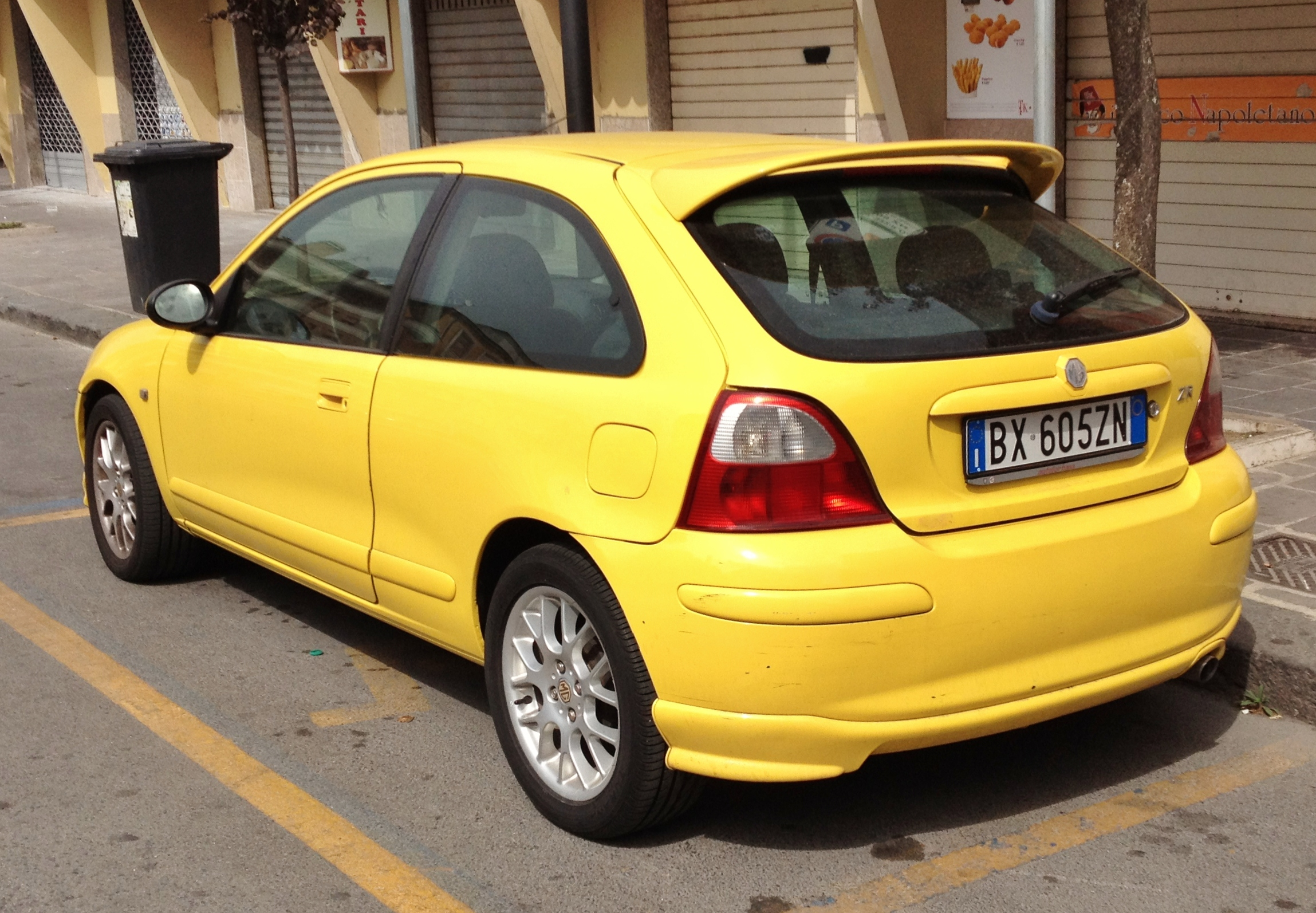 MG ZR 3door